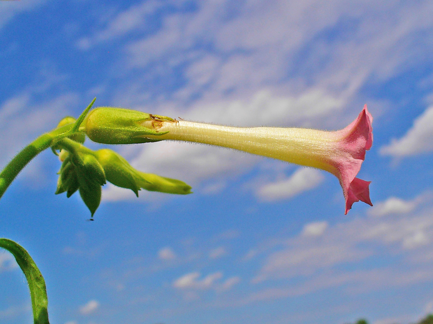 Nicotiana tabacum, Solanaceae, Common Tobacco, flower. Stutensee, Germany.